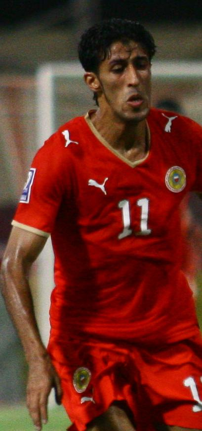 Ismael Abdullatif is a Bahraini football striker and winger who plays for Al Riffa.